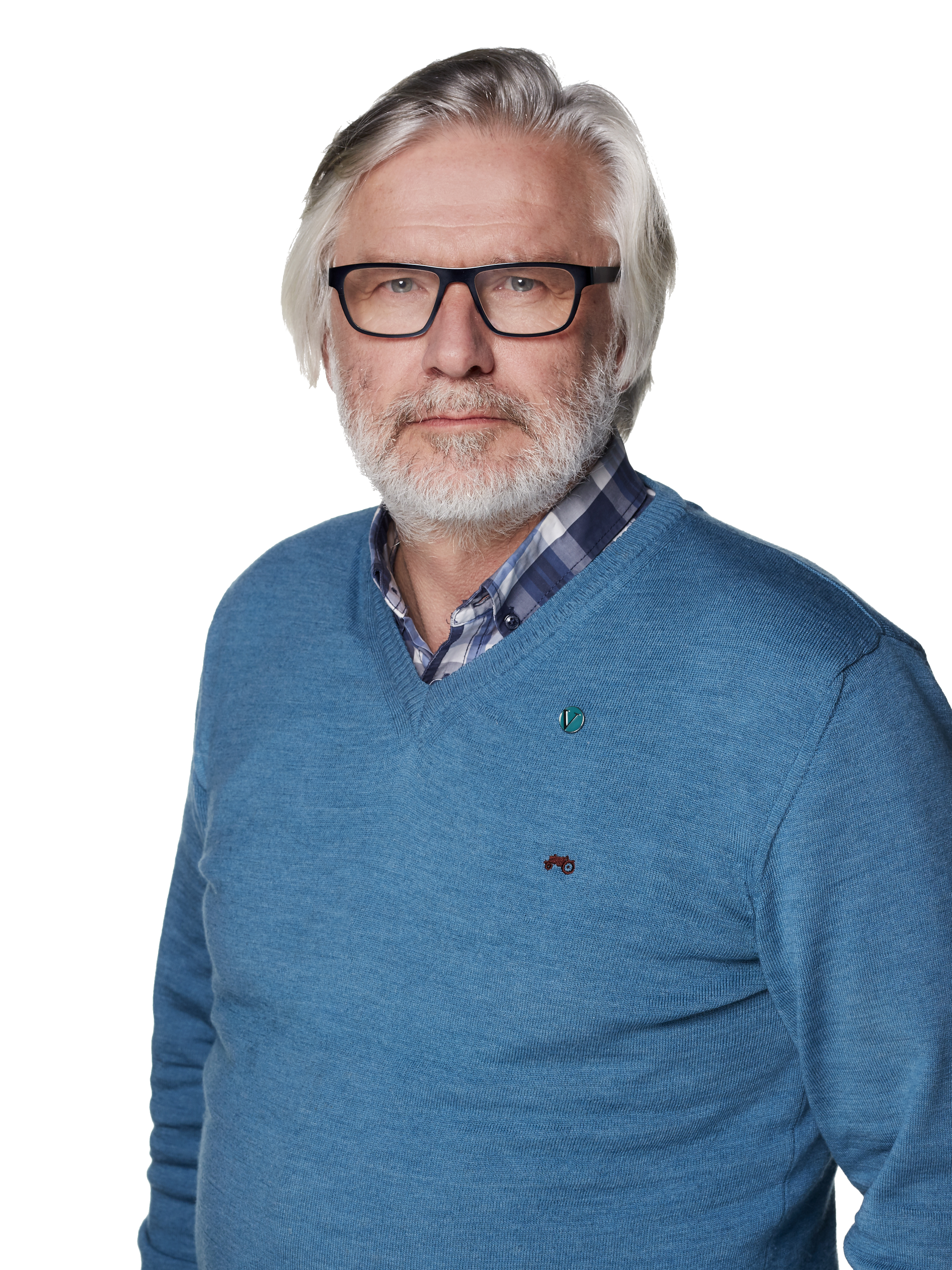 Jon Gunnes